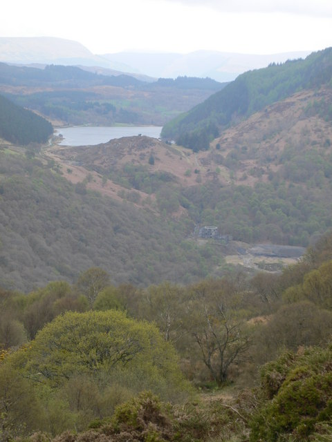 Llyn Geirionydd and Klondyke mill, near Trefriw, north Wales